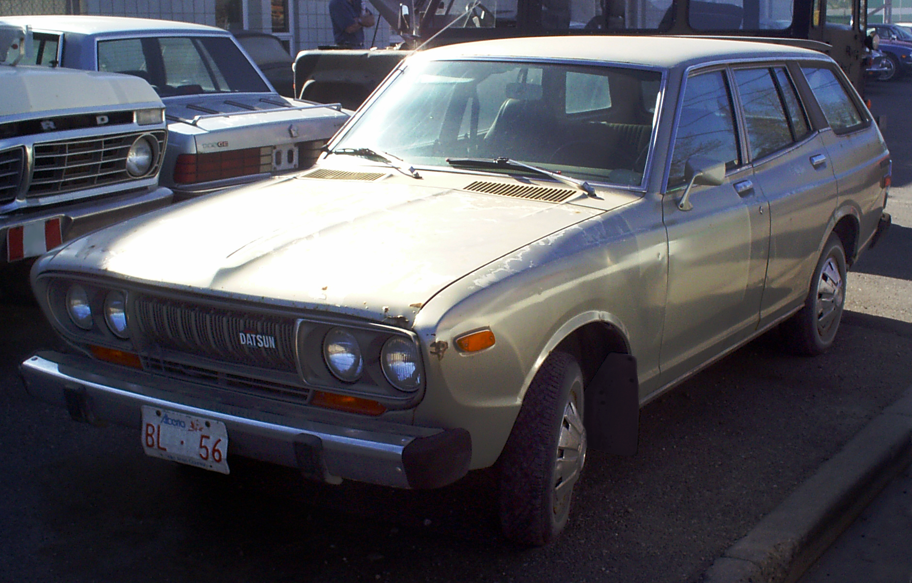 Canadian market Datsun 710 (Violet/140J/160J abroad) wagon